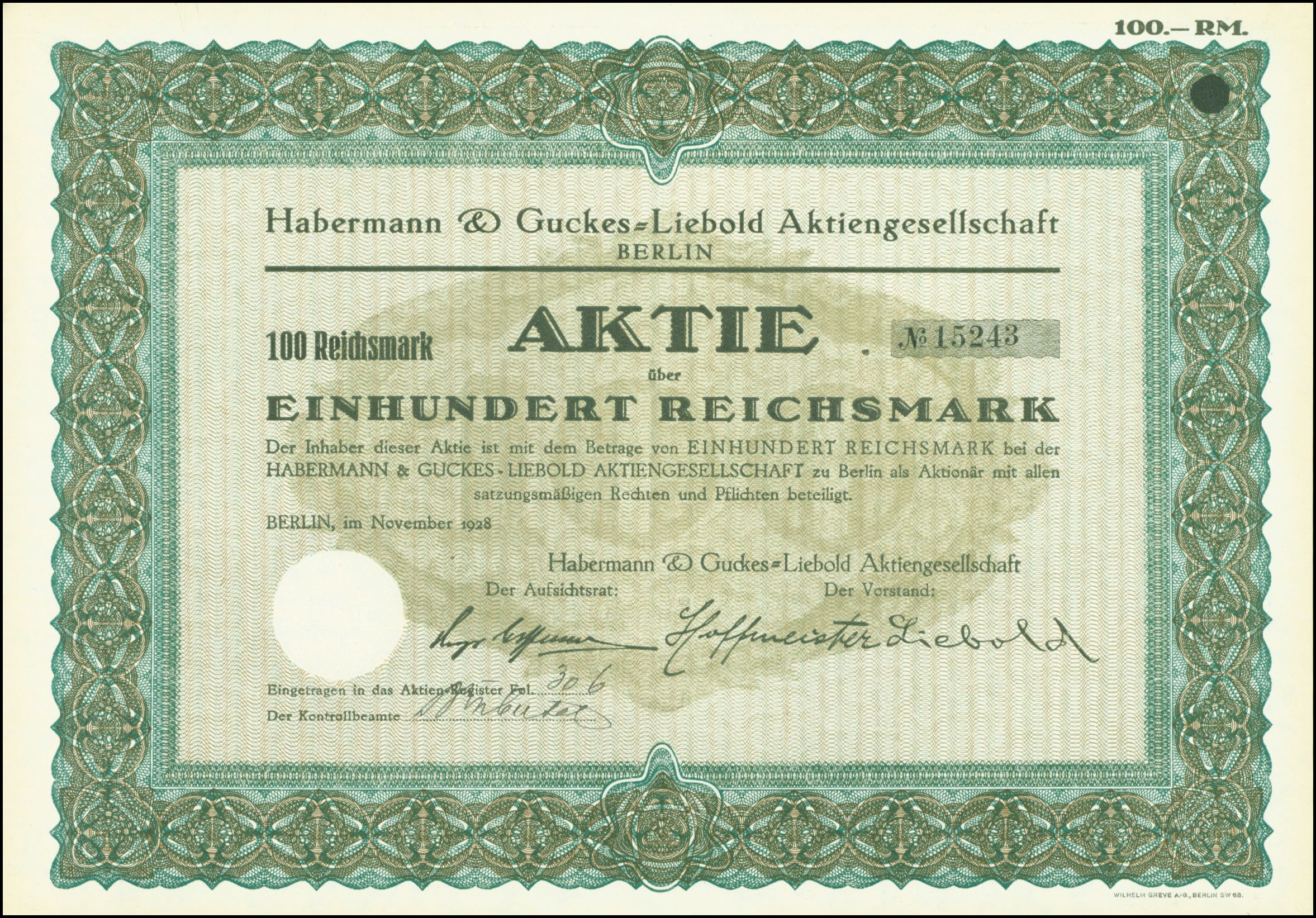 Share of the Habermann & Guckes-Liebold AG, issued November 1928